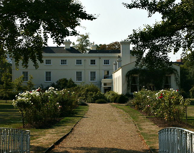 View of Morden Hall, from the park